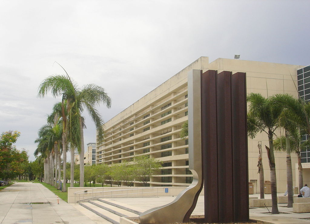 I took this picture on the Boca Raton campus of Florida Atlantic University on 8/20/06 between 12 and 1pm.